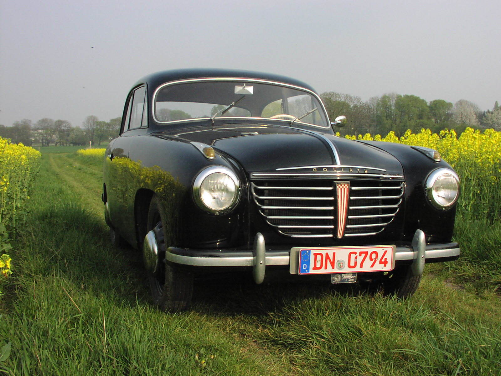 Goliath GP700, Bj.1954